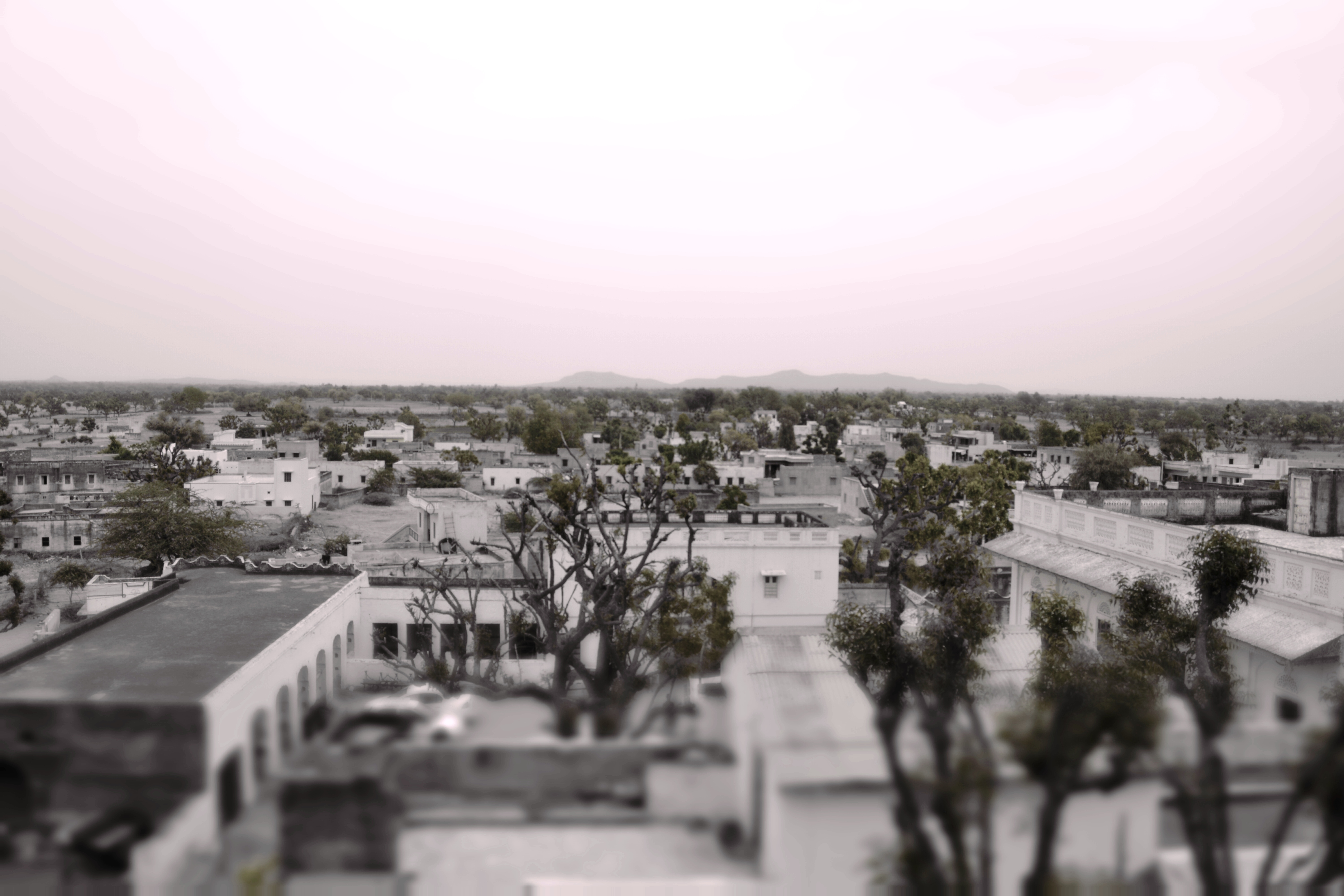 Jiliya Fort Palace terrace and the town below